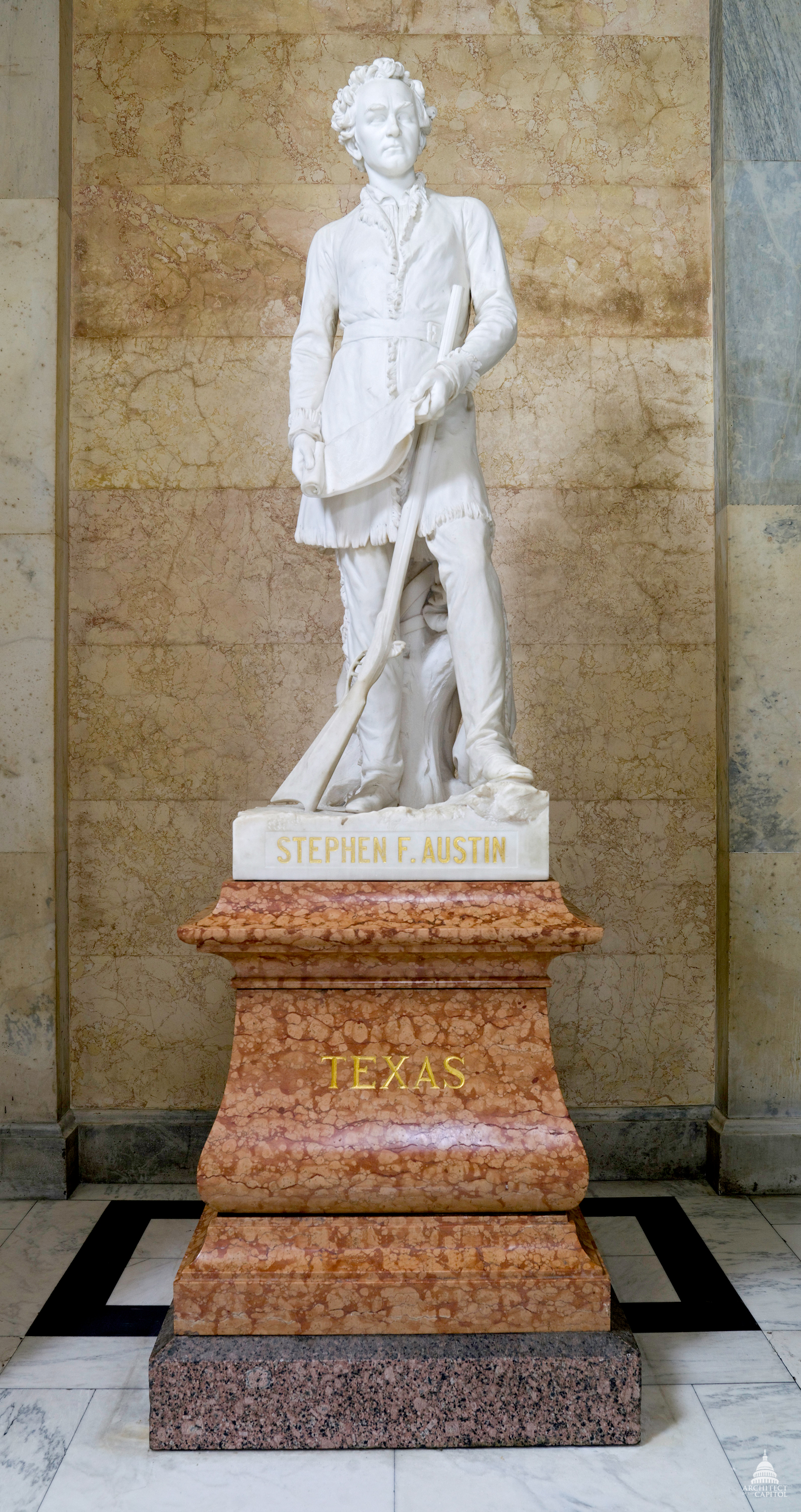 Stephen Austin (1793-1836) Texas Marble by Elisabet Ney Given in 1905 Hall of Columns U.S. Capitol This official Architect of the Capitol photograph is being made available for educational, scholarly, news or personal purposes (not advertising or any other commercial use). When any of these images is used the photographic credit line should read “Architect of the Capitol.” These images may not be used in any way that would imply endorsement by the Architect of the Capitol or the United States Congress of a product, service or point of view. For more information visit